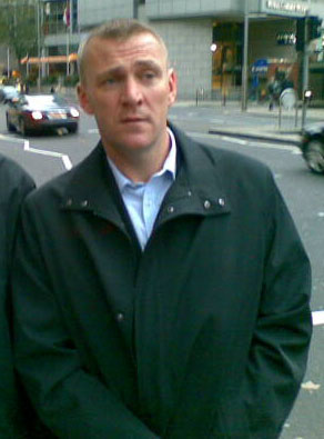 Graham Poll, English football referee, taken in London